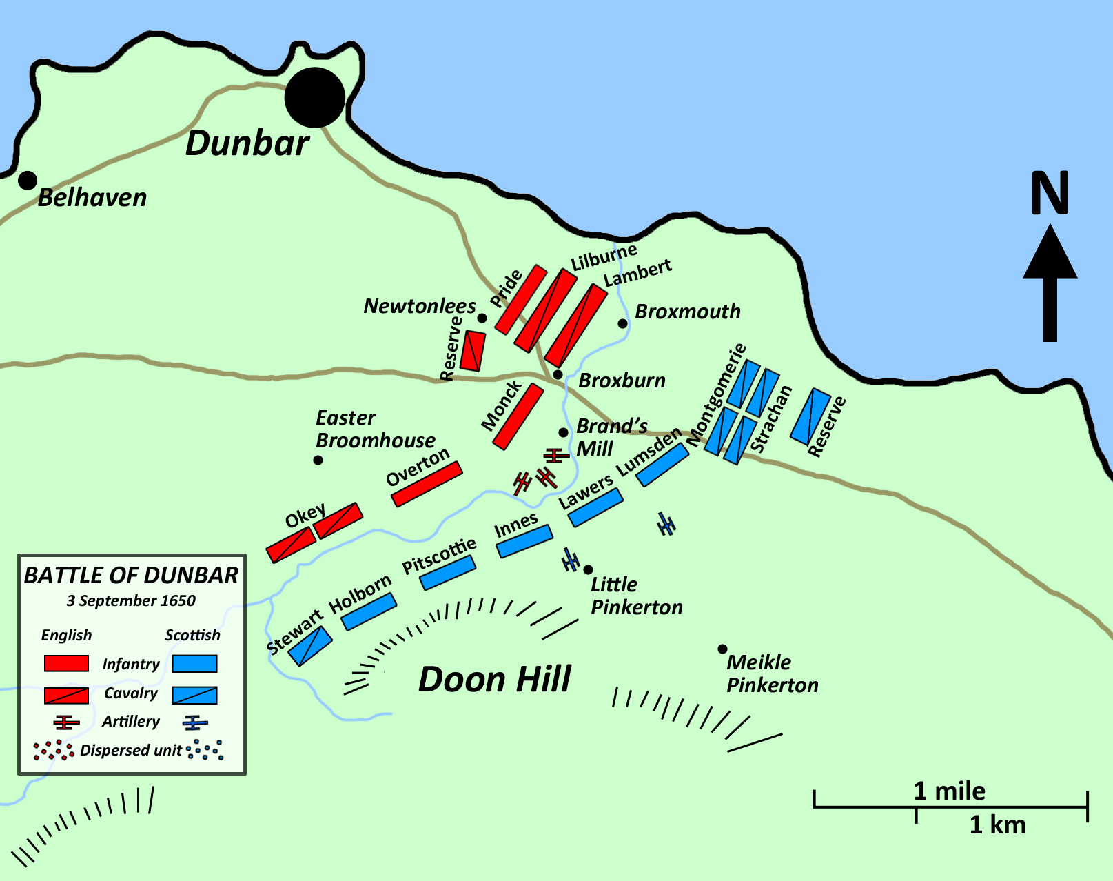 The Battle of Dunbar took place during the War of the Three Kingdoms, in what is commonly referred to as the "Third English Civil War". This map depicts the general layout of the two armies just prior to the battle, at 0430. The Scottish army is labelled in blue, while the English army is in red.